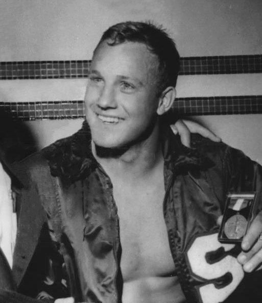 1960 Press Photo George Harrison & Ray Daughter f USA Olympic swim team